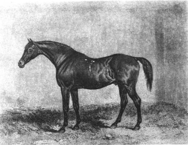 Painting by unknown artist of British Thoroughbred stallion Muley (bay 1810, Orville-Eleanor) that was the damsire of the broodmare Pocahontas, the dam of "emperor of stallions" Stockwell.